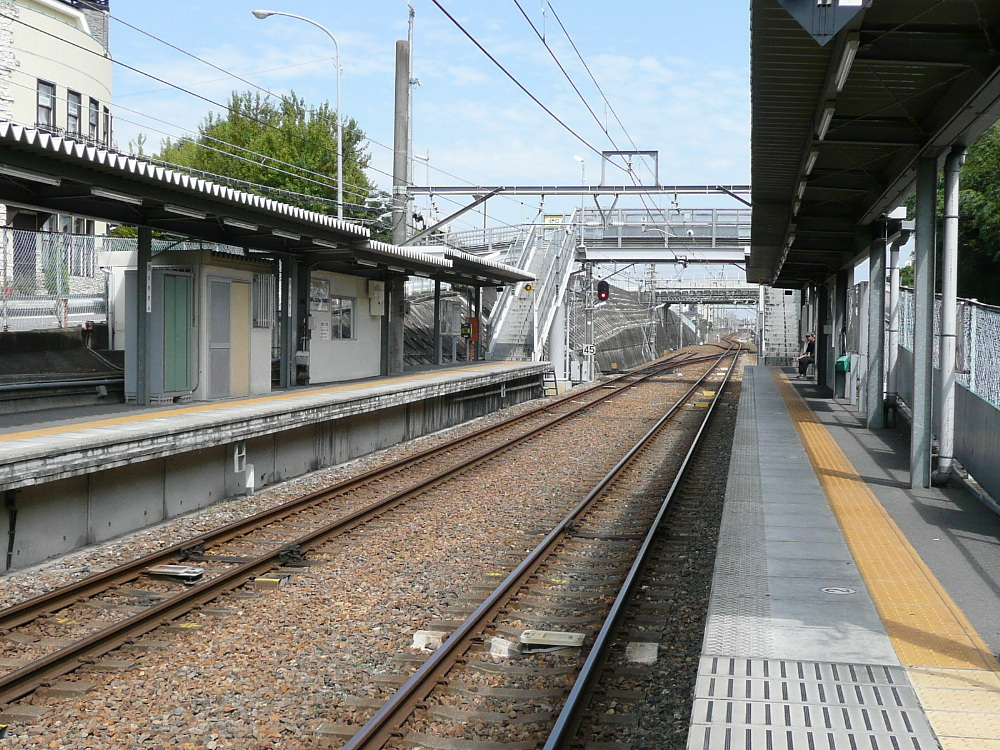 Suenohara Station platform, Aichi Loop Line.